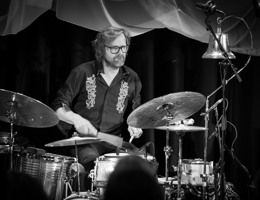 Erland Dahlen performs with Ellen Andrea Wang at the stage of Sentralen. The concert was part of the Oslo Jazz Festival in Norway and took place on 18. August 2016. Lineup: Ellen Andrea Wang (double bass) Jon Balke (piano) Hanna Paulsberg (saxophone) Andreas Ulvo (keyboard) Erland Dahlen (drums)